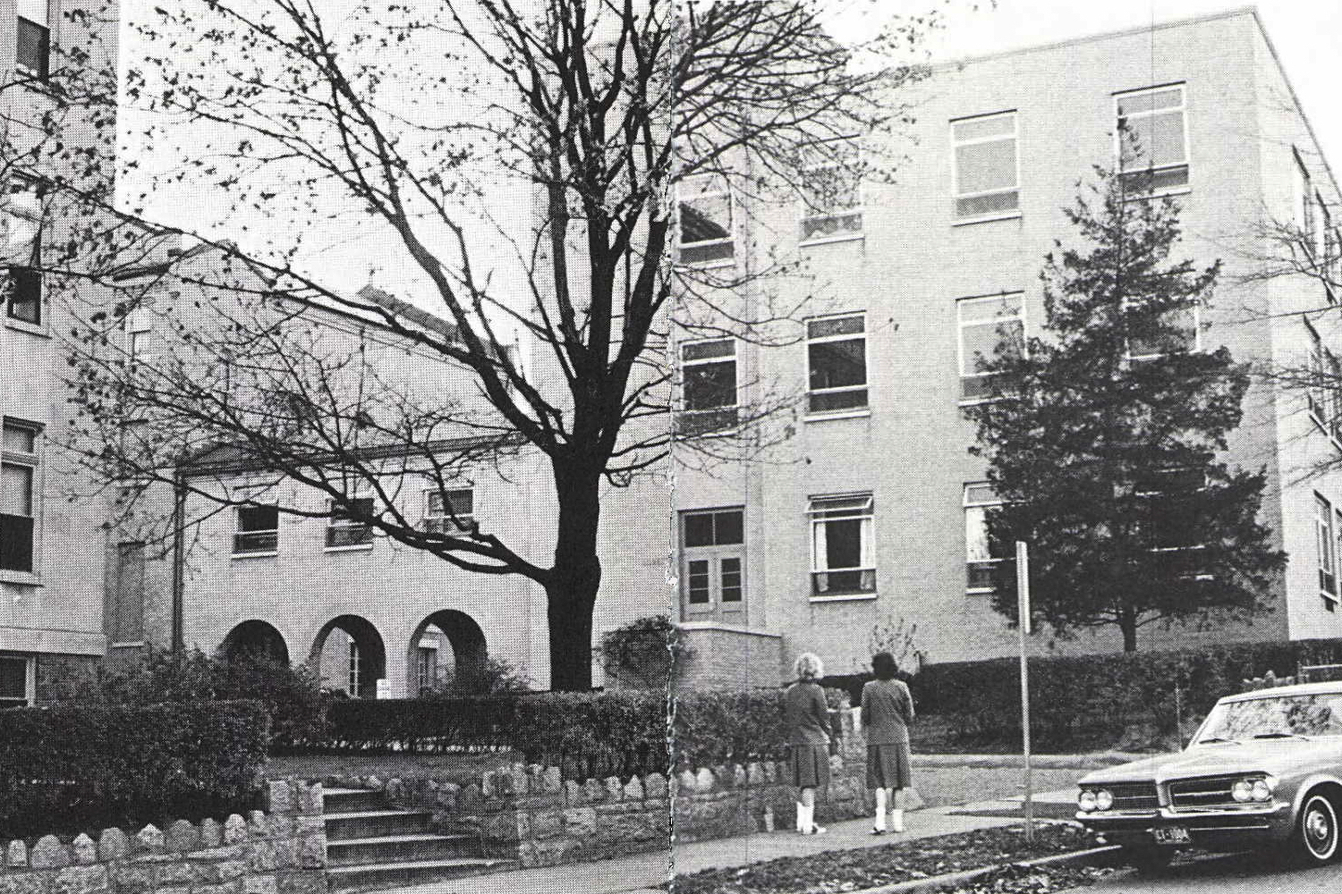 Two Immaculata High School students walk towards Loretta Hall (later named Federal Hall by American University); Immaculata Seminary and its chapel can be seen to the left